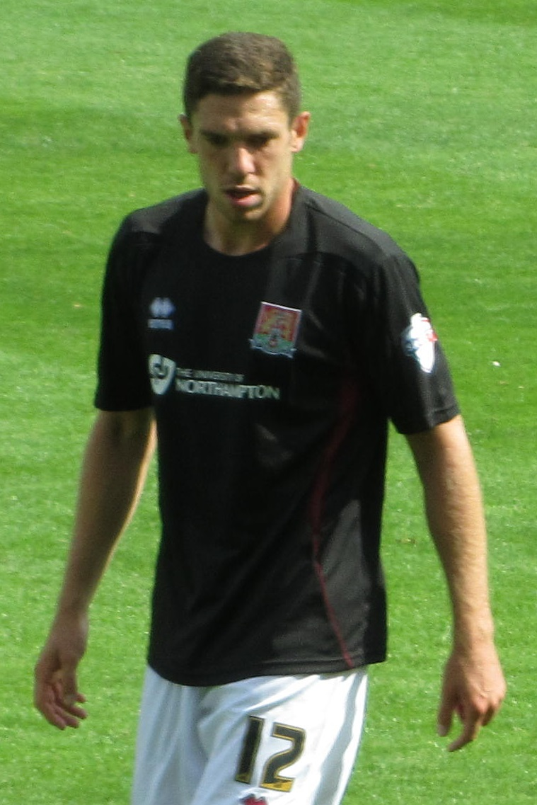 Ben Tozer.